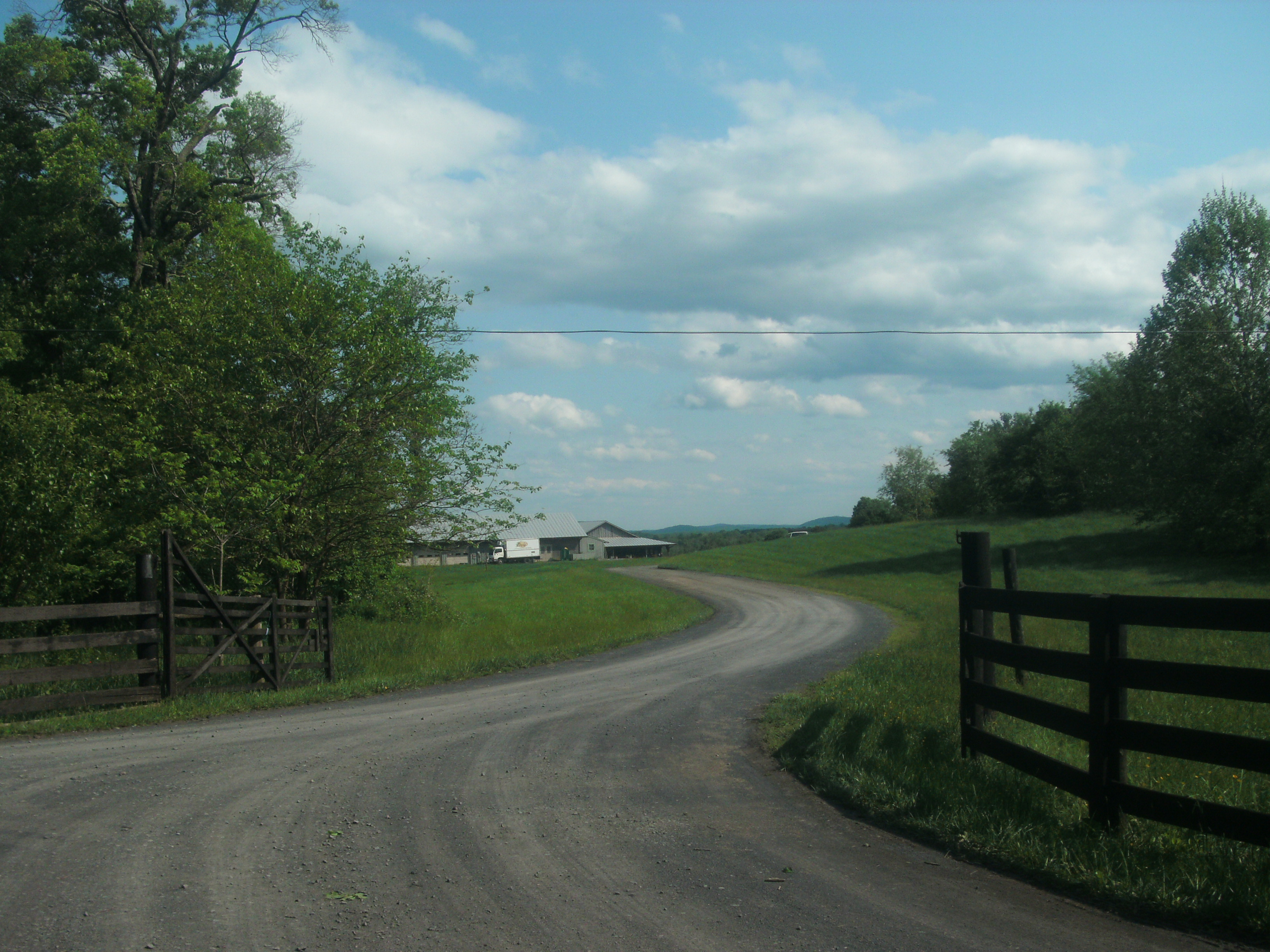 Sunnyside Farm, Washington, Virginia. Taken by me in May, 2016 GEDSC DIGITAL CAMERA